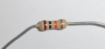 Electrical resistance 10KΩ